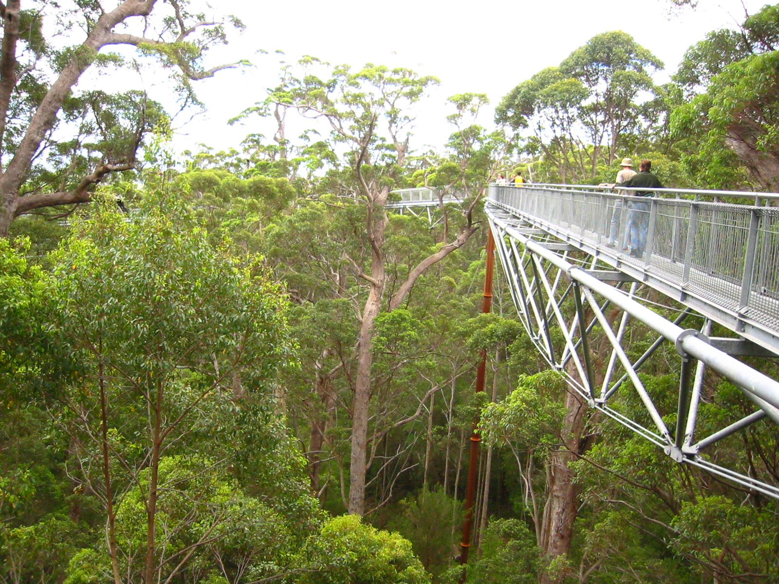 Valley of the giants tree top walk near Walpole